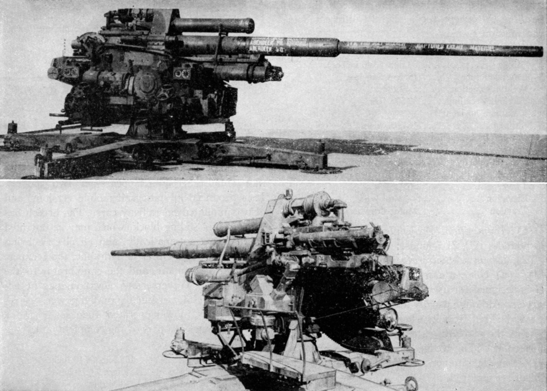 Two views of a Second World War German 10.5 cm Flak 38 anti-aircraft gun.